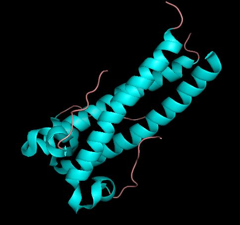 Cristal structure of syncytin-2